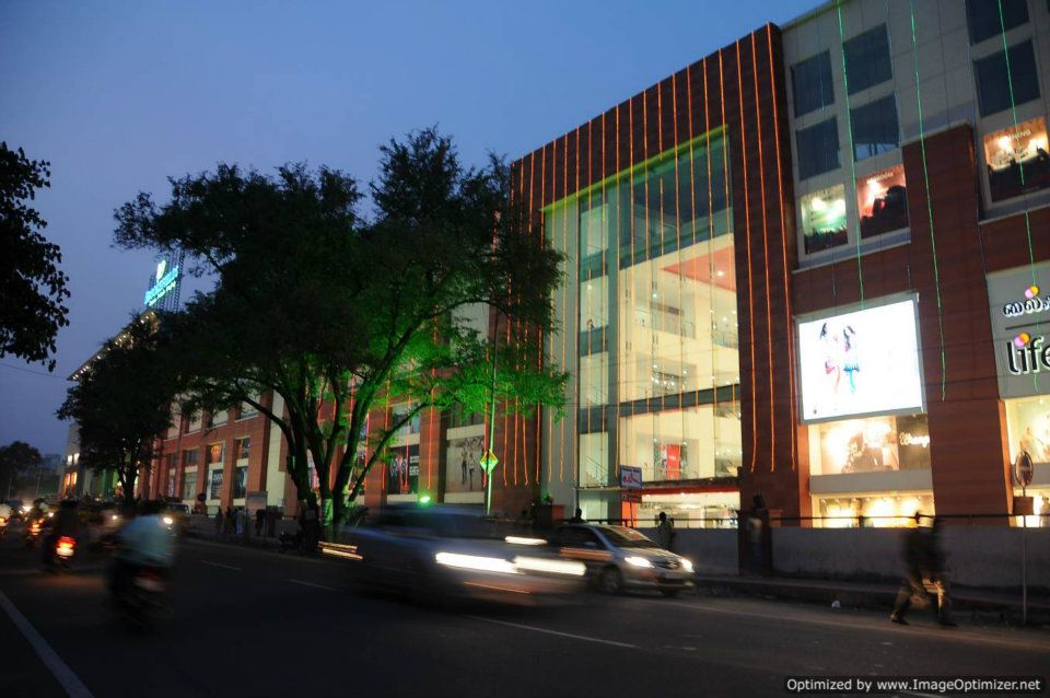 Brooks mall1